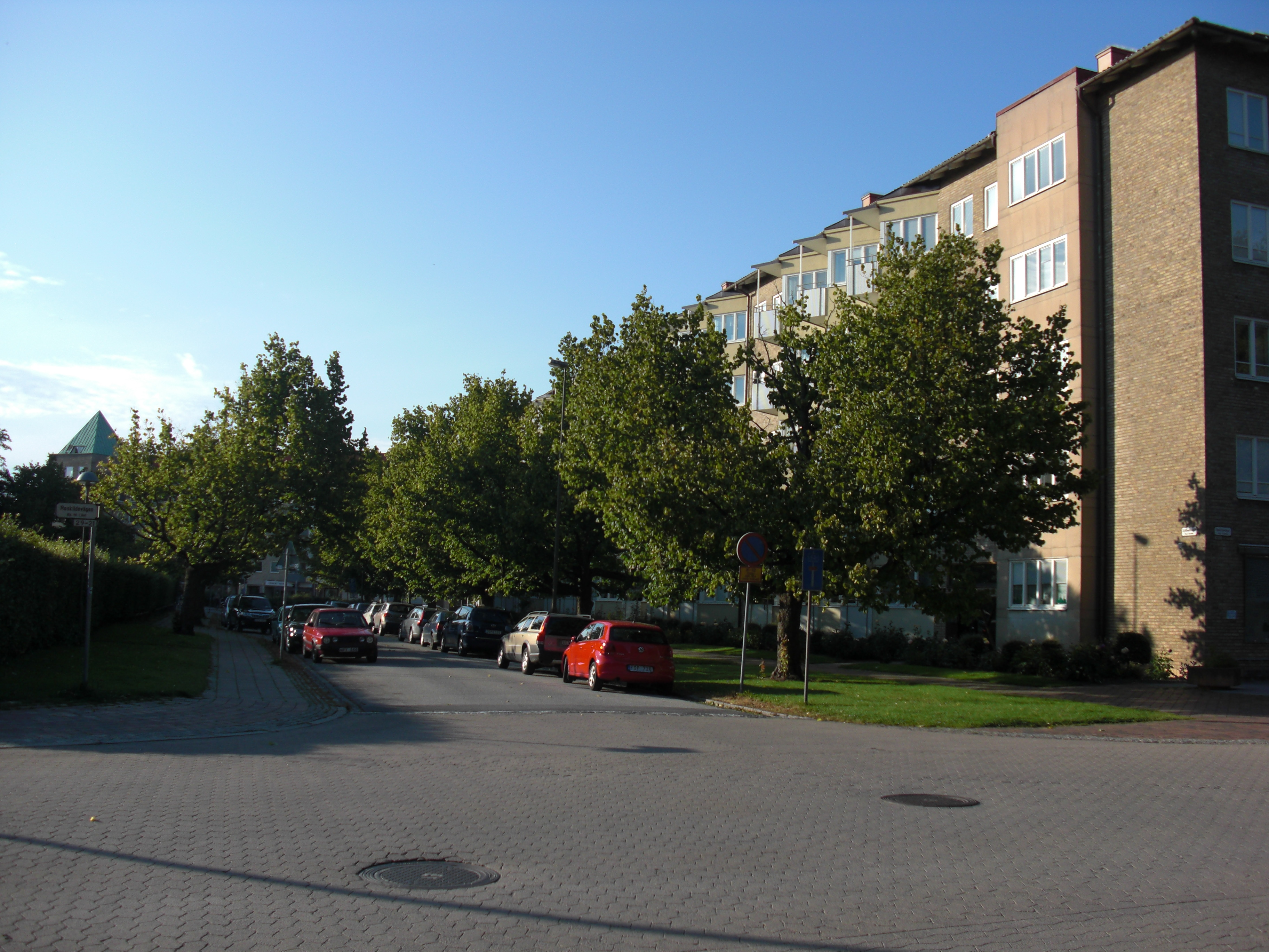 Själlandstorget in Malmö, Sweden.